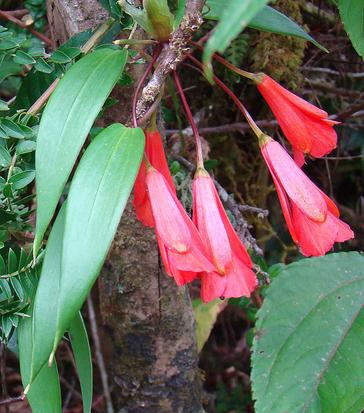 Native to the mountains of Costa Rica and adjacent Panama. Photo from Volcan Baru in the latter. In context at